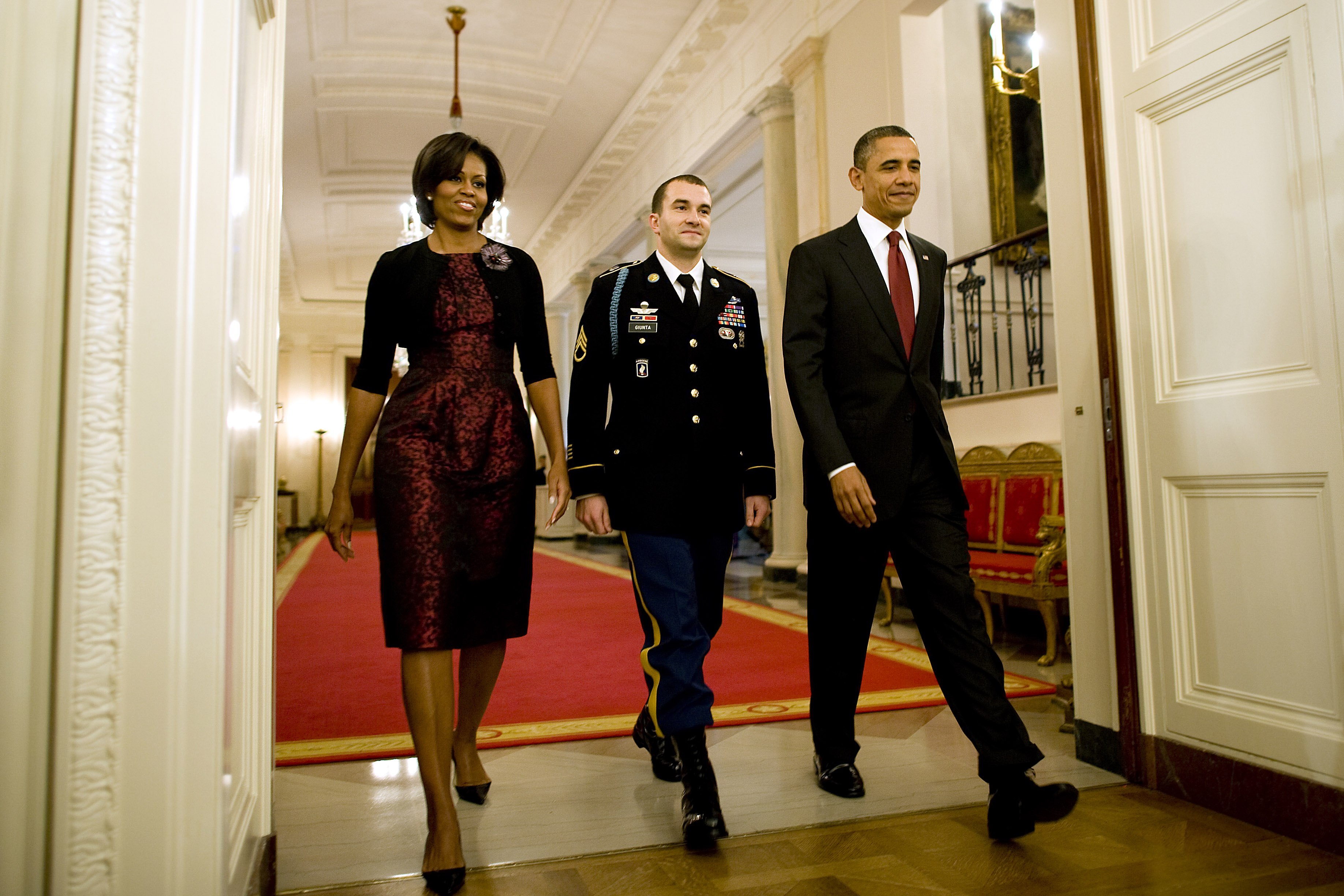 President Barack Obama (right), Staff Sgt. Salvatore Giunta and First Lady Michelle Obama enter the East Room of the White House to begin the Medal of Honor ceremony on Nov. 16, 2010. Giunta, of Hiawatha, Iowa, is the first living veteran of the wars in Iraq and Afghanistan to receive the award.